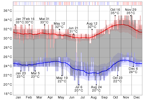 The daily low (blue) and high (red) temperature during 2015 with the area between them shaded gray and superimposed over the corresponding averages (thick lines), and with percentile bands (inner band from 25th to 75th percentile, outer band from 10th to 90th percentile). The bar at the top of the graph is red where both the daily high and low are above average, blue where they are both below average, and white otherwise.